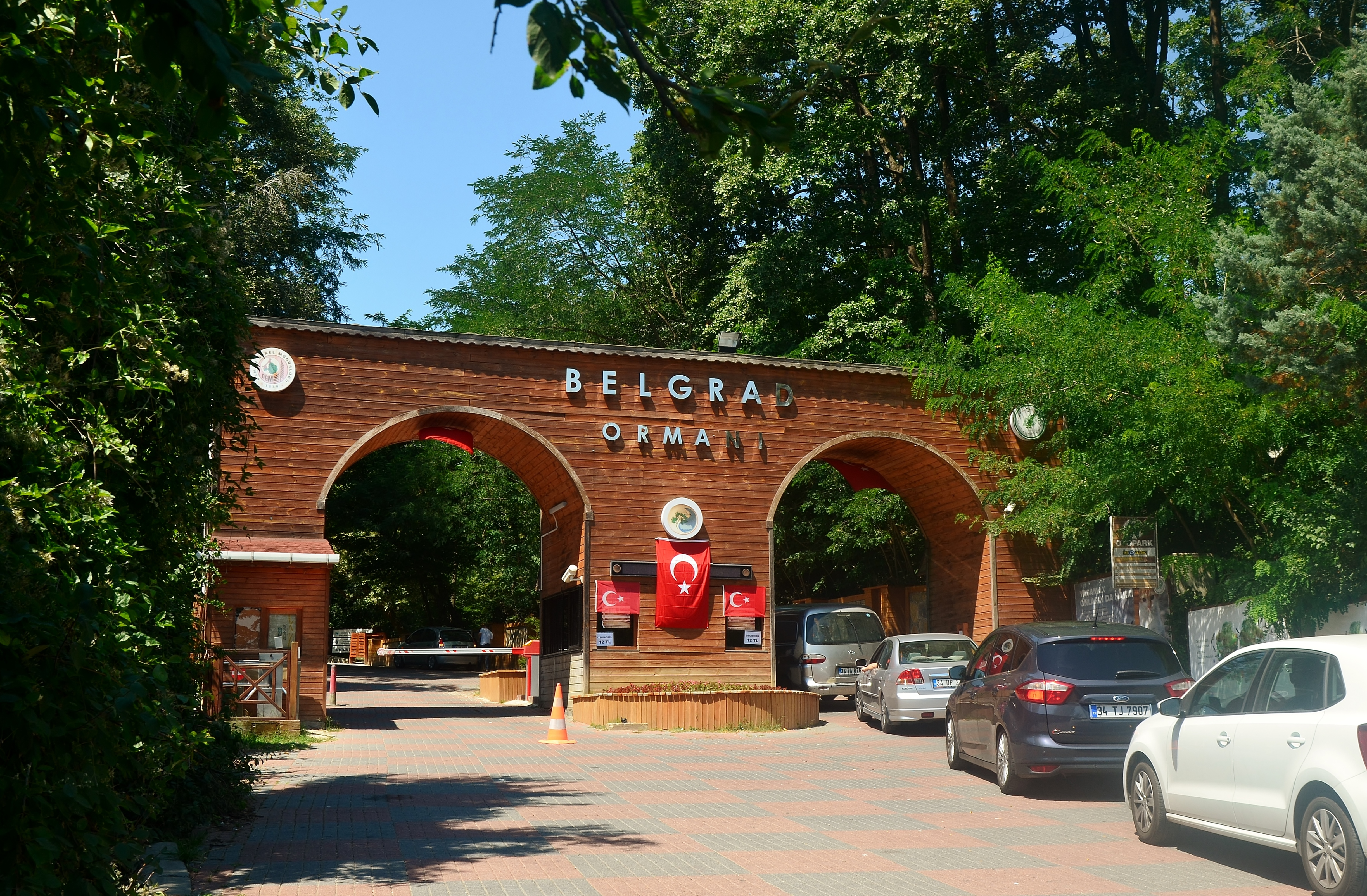 Main gate of Belgrad Forest in Bahçeköy, Sarıyer, Istanbul, Turkey